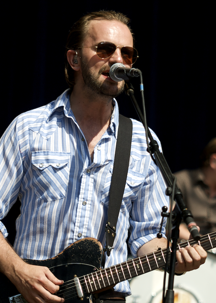 Danish singer-songwriter, Tim Christensen.